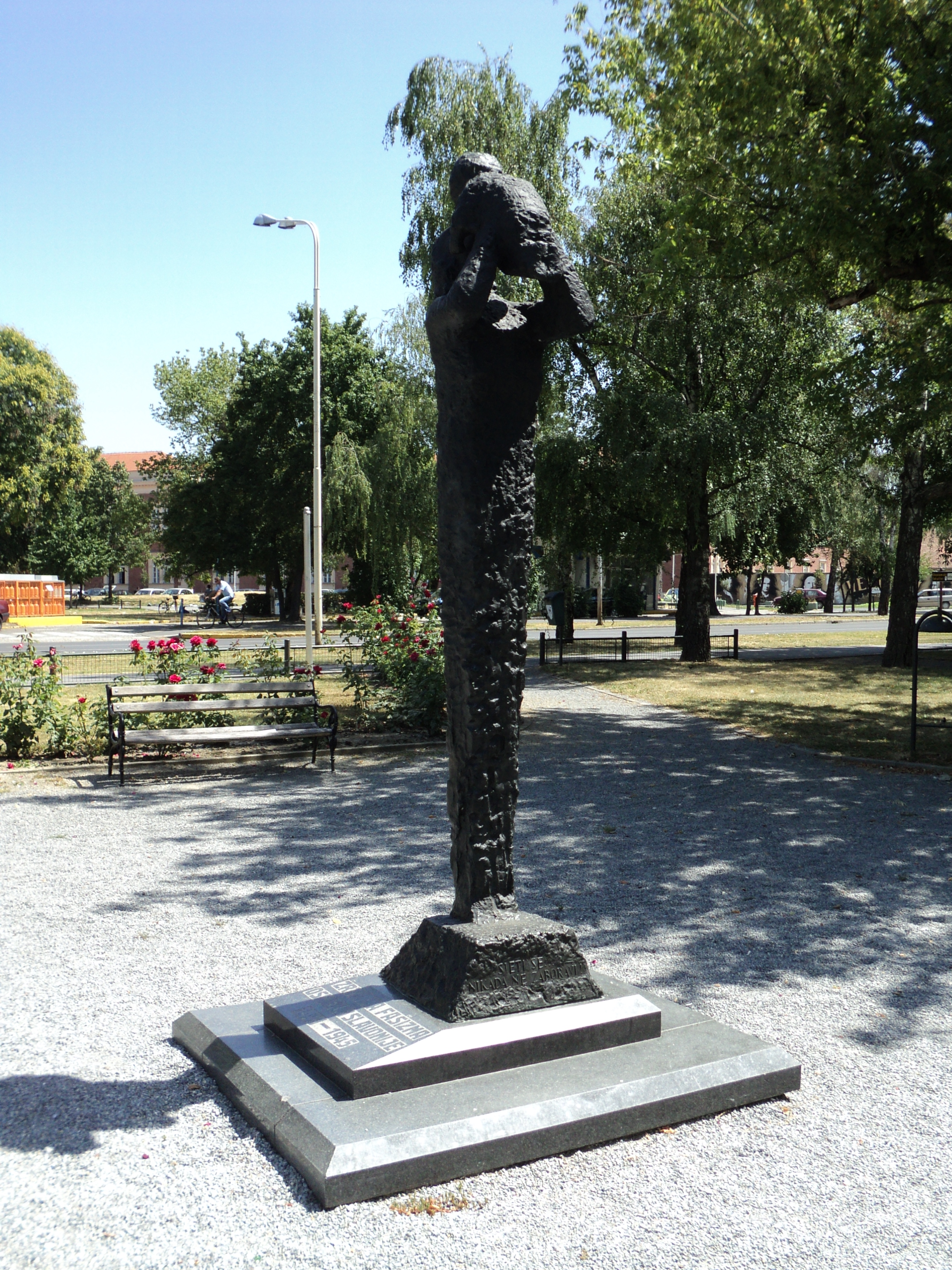 "Mother with child", sculpture dedicated to the victims of fascism in Osijek and Slavonia 1941-1945, Osijek.